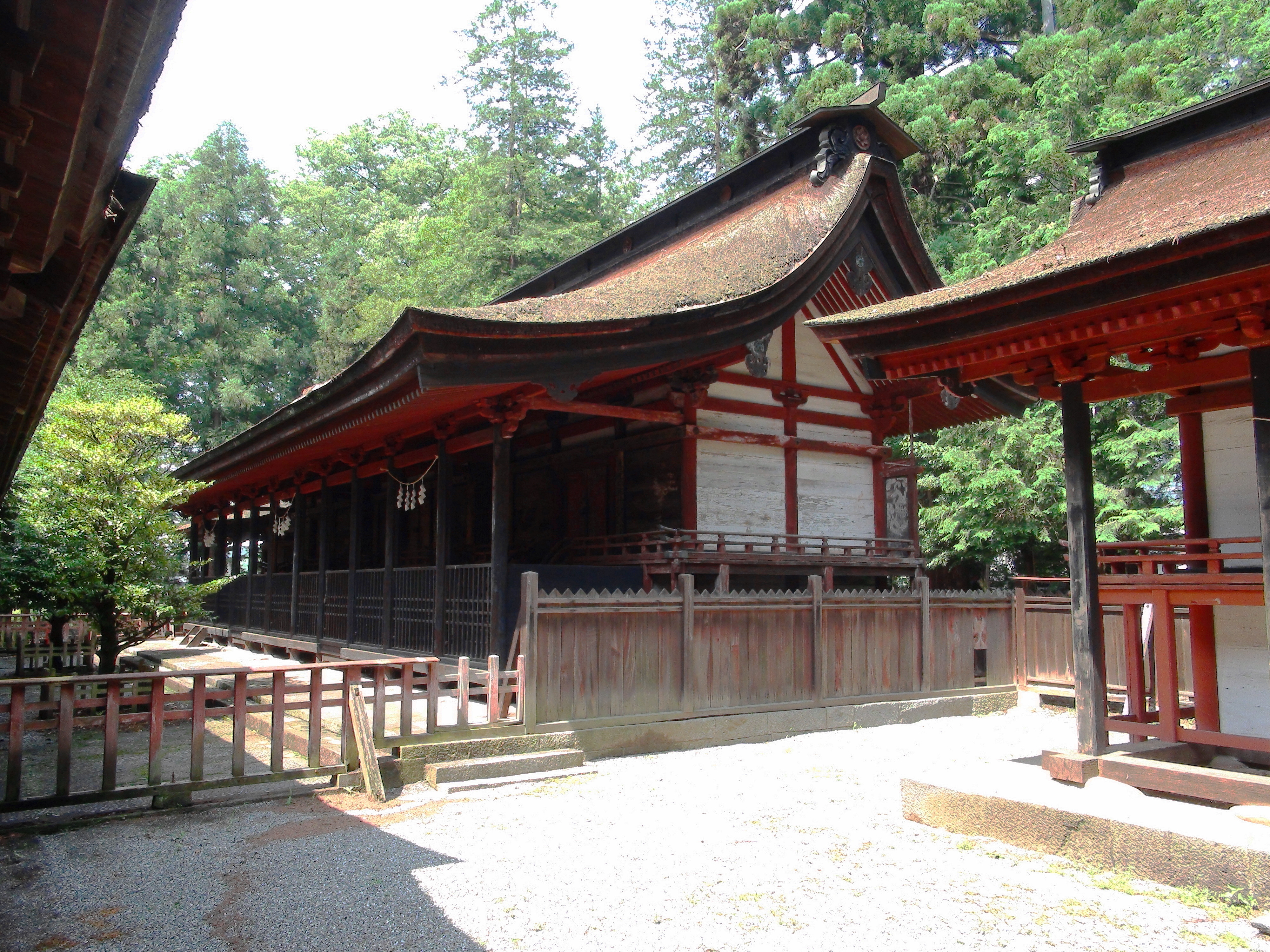 Oimatakubo-hachiman shrine main